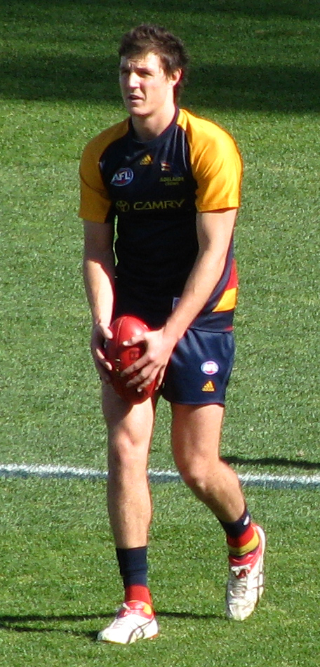 Kurt Tippett in the pre-match warm up for the 2009 Round 21 clash against West Coast Eagles at AAMI Stadium.